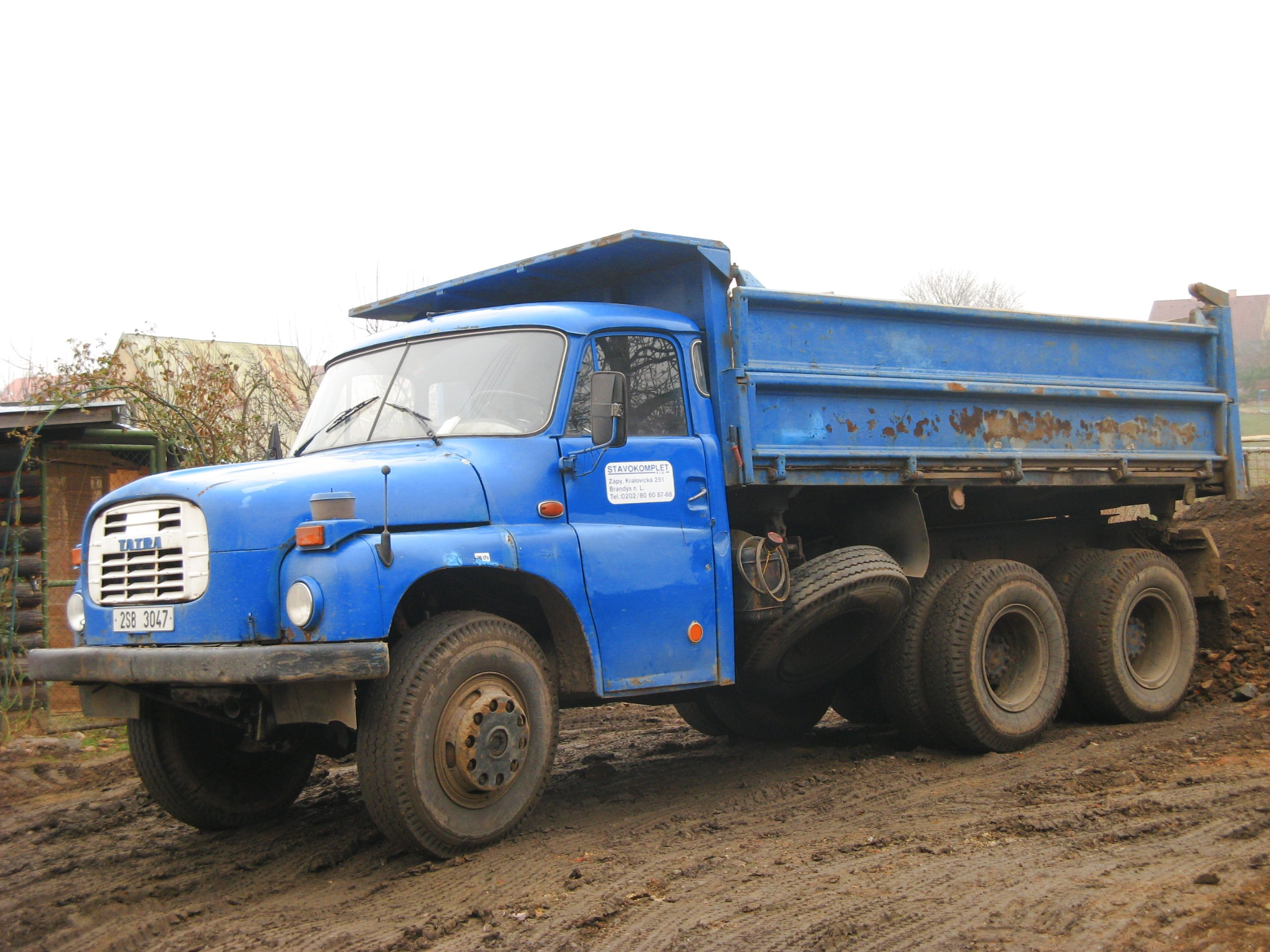 Tatra 148 lorry